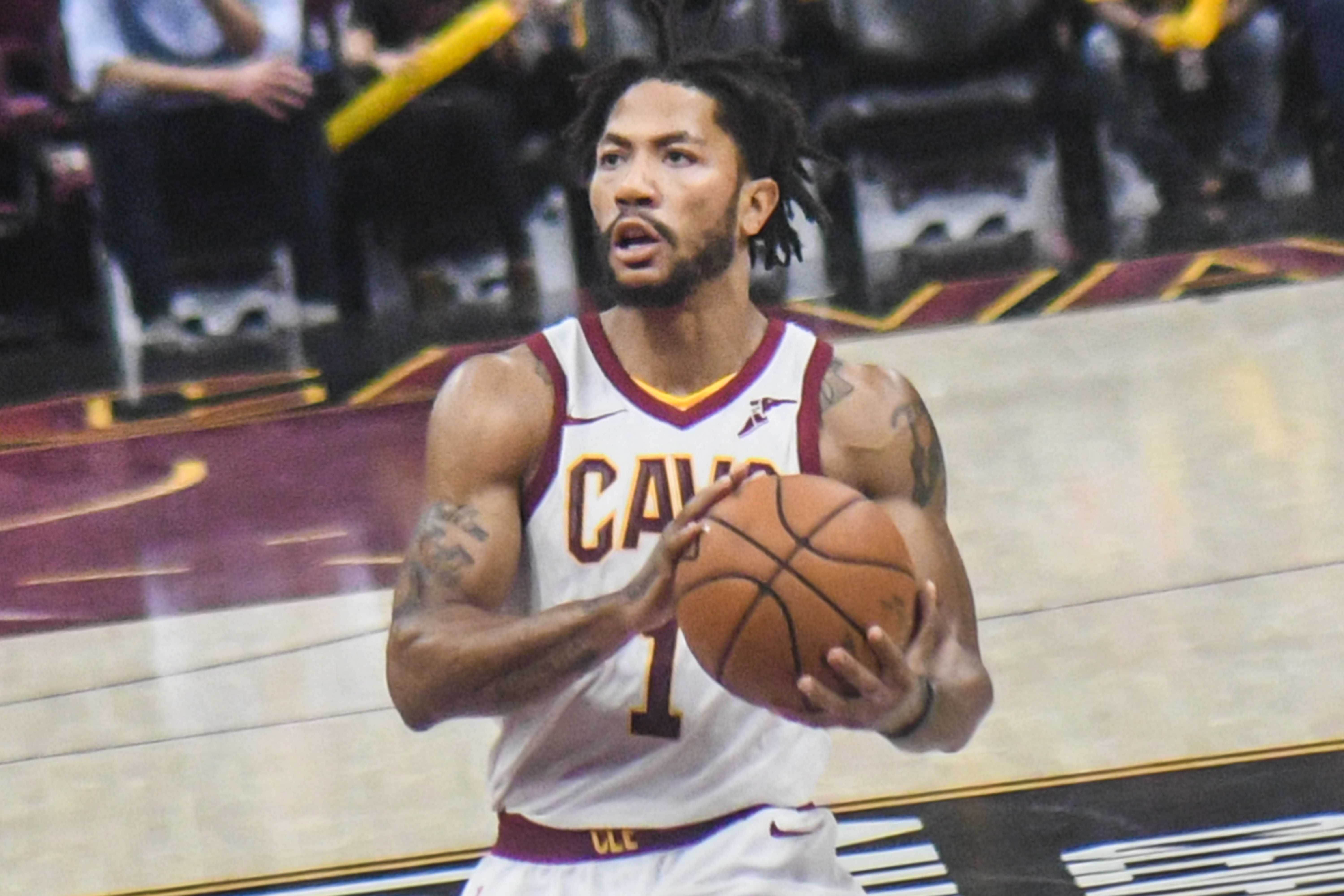 Derrick Rose of the Cleveland Cavaliers